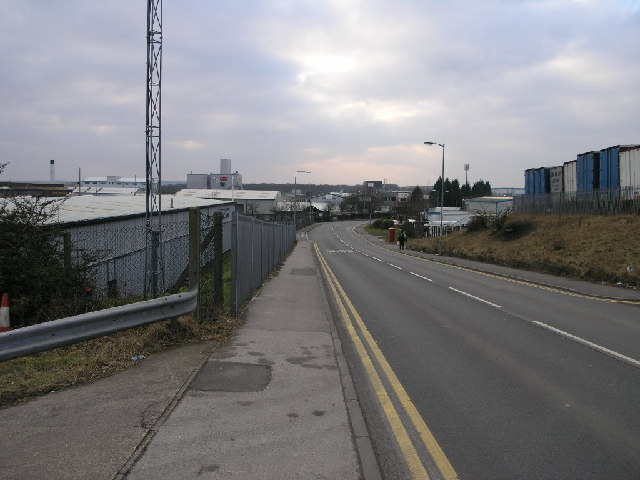 Dukeries Industrial Estate. The grandly named Dukeries Industrial Estate is home to the Oxo cube production factory. During the 1/200 of a second that my camera shutter was open the factory no doubt produced enough Oxo cubes to last a large family a lifetime. Perhaps.